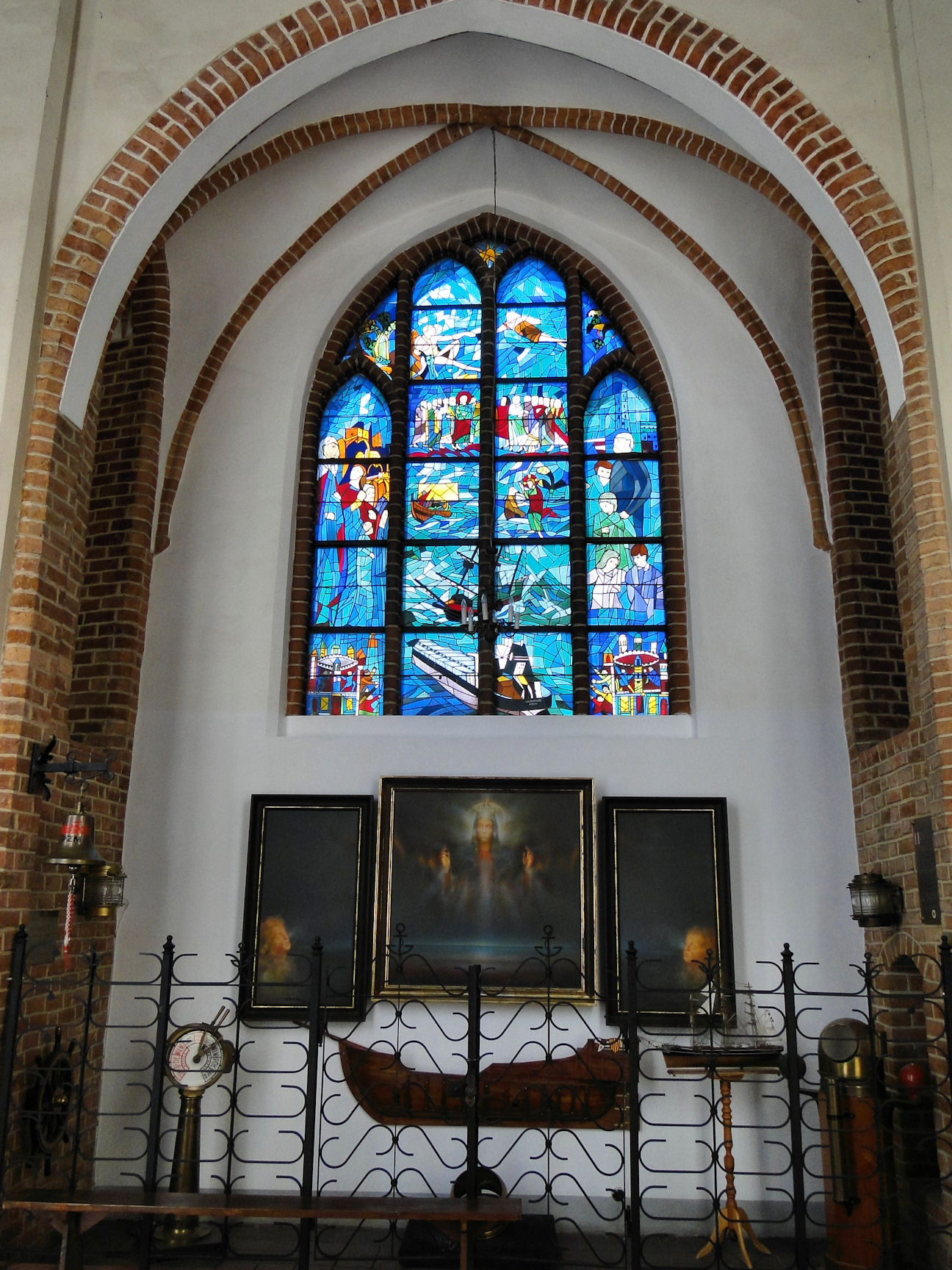 Interior of Szczecin Cathedral